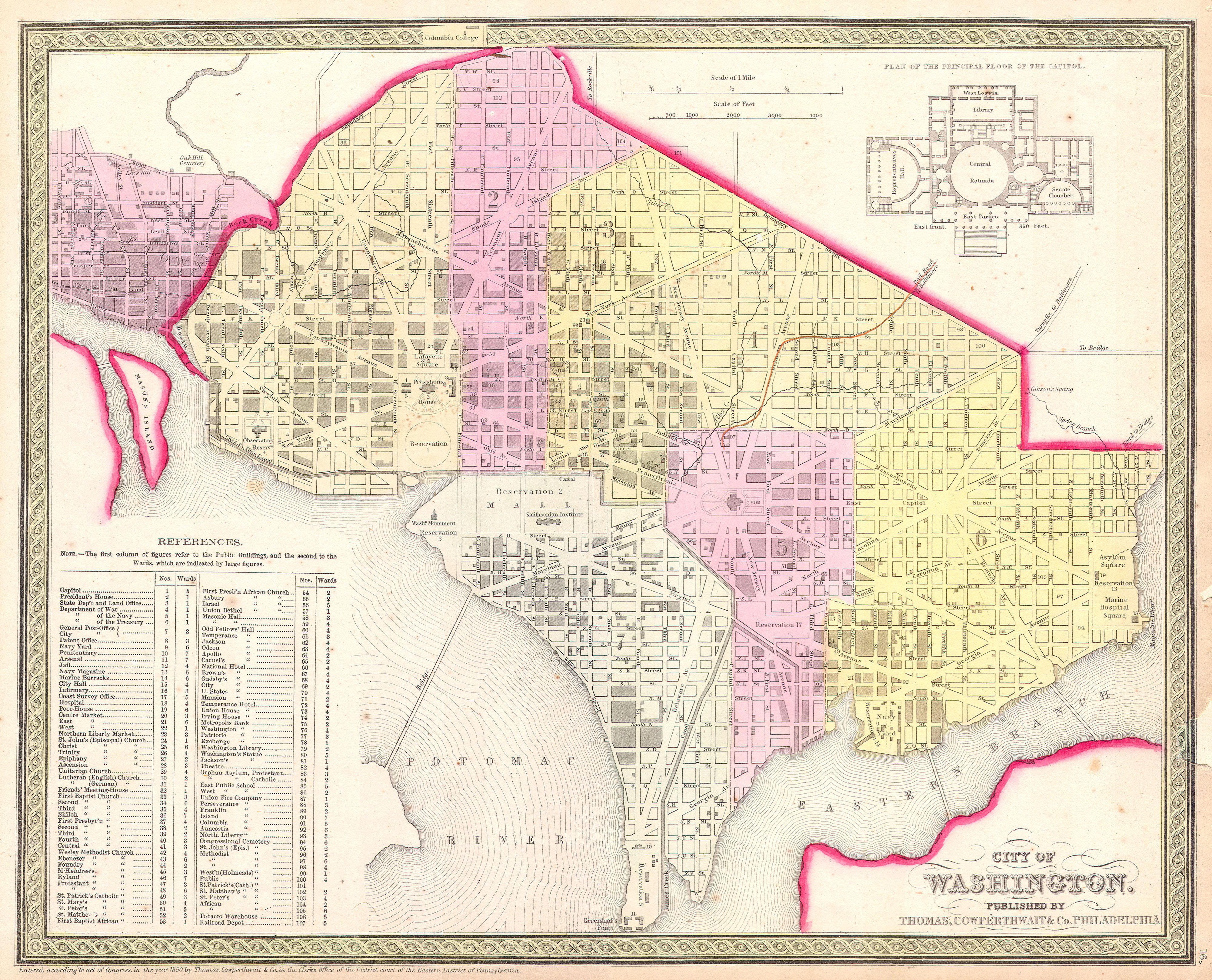 This is beautiful hand colored 1850 map of Washington D.C., Capital of the United States. The map covers all of Washington D.C. as well as parts of adjacent Georgetown. The whole is highly detailed with individual buildings noted and color coding to define city wards. Some seventy-five buildings, including the Capitol, the White House, the Cemetery, the Brewery, various markets, the Masonic Hall, and the Tobacco Warehouse, and many others, are identified. Produced by the American map publisher S. A. Mitchell Sr. from his offices on the northeast corner of Market and 7th Street, Philadelphia, Pennsylvania.